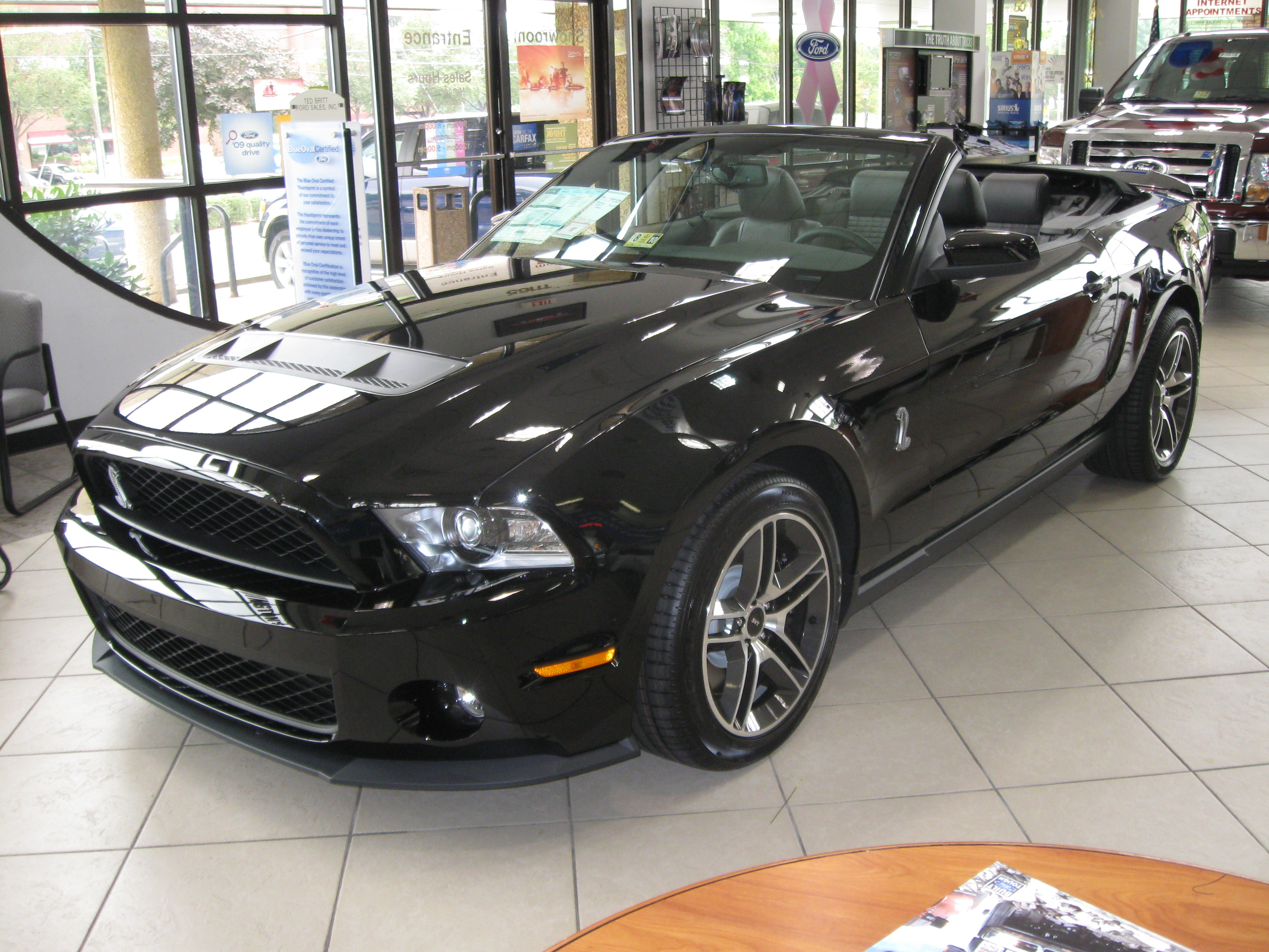 2010 Ford Mustang GT500 convertible photographed in Fairfax, Virginia, USA.